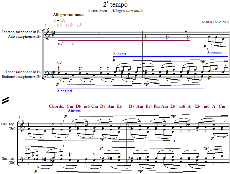 first 4 bars from score: Momenti mobile, 2. movement with an small analysis.